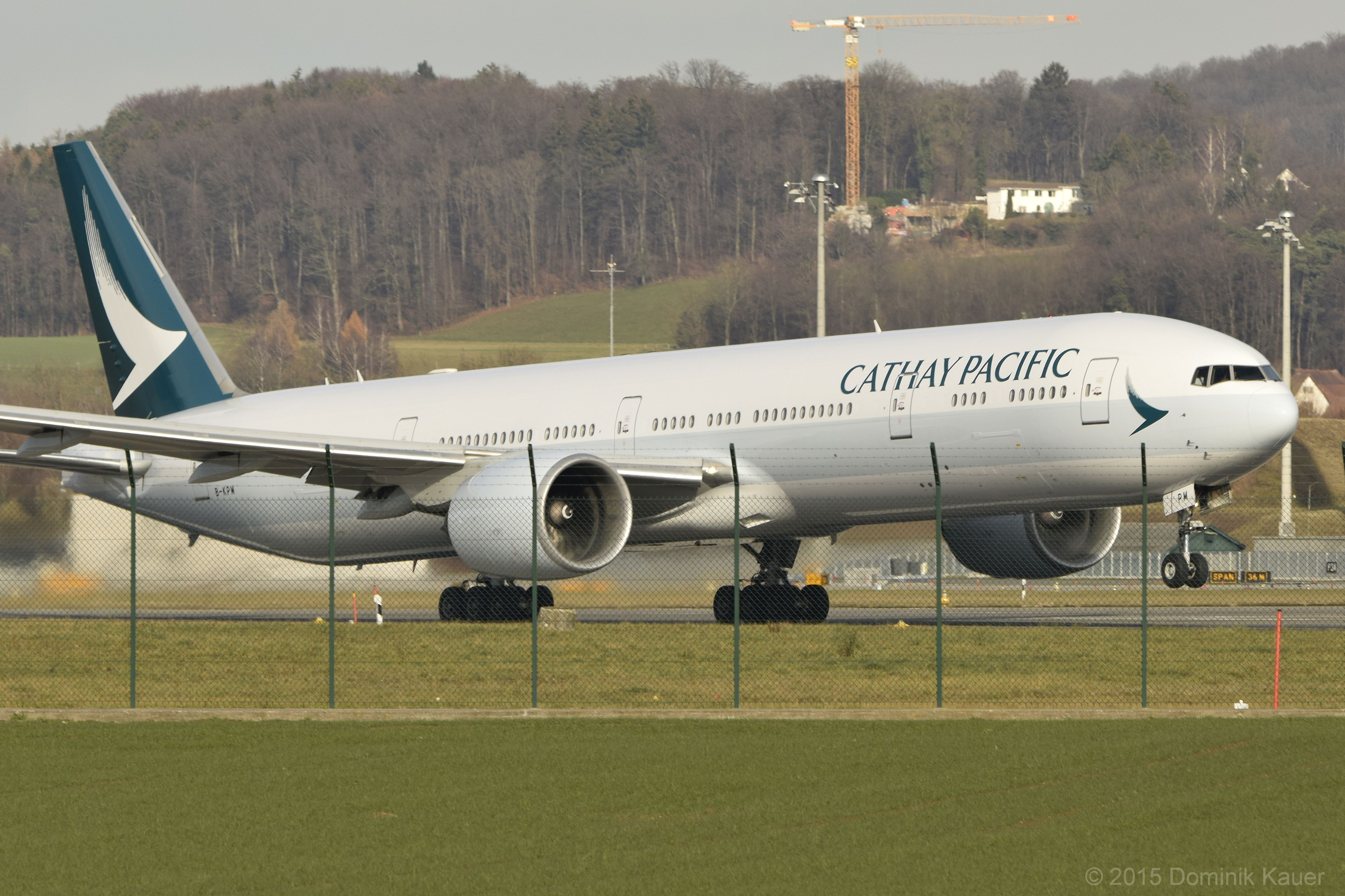 Cathay Pacific AIrways Boeing 777-367ER in the new livery taking off in Zurich